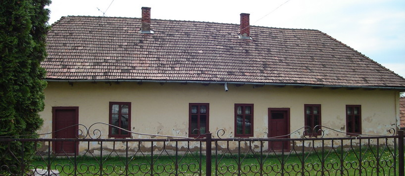 Old schoolbuilding in Mereni (hu. Kézdialmás), demolished 2007, Covasna County, Transylvania